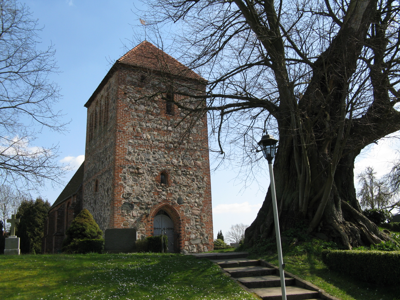 church in Slate, disctrict Parchim, Mecklenburg-Vorpommern, Germany